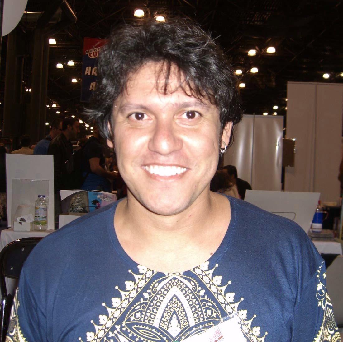 Comic book creator Ivan Reis at the New York Comic Convention in Manhattan, April 20, 2008.